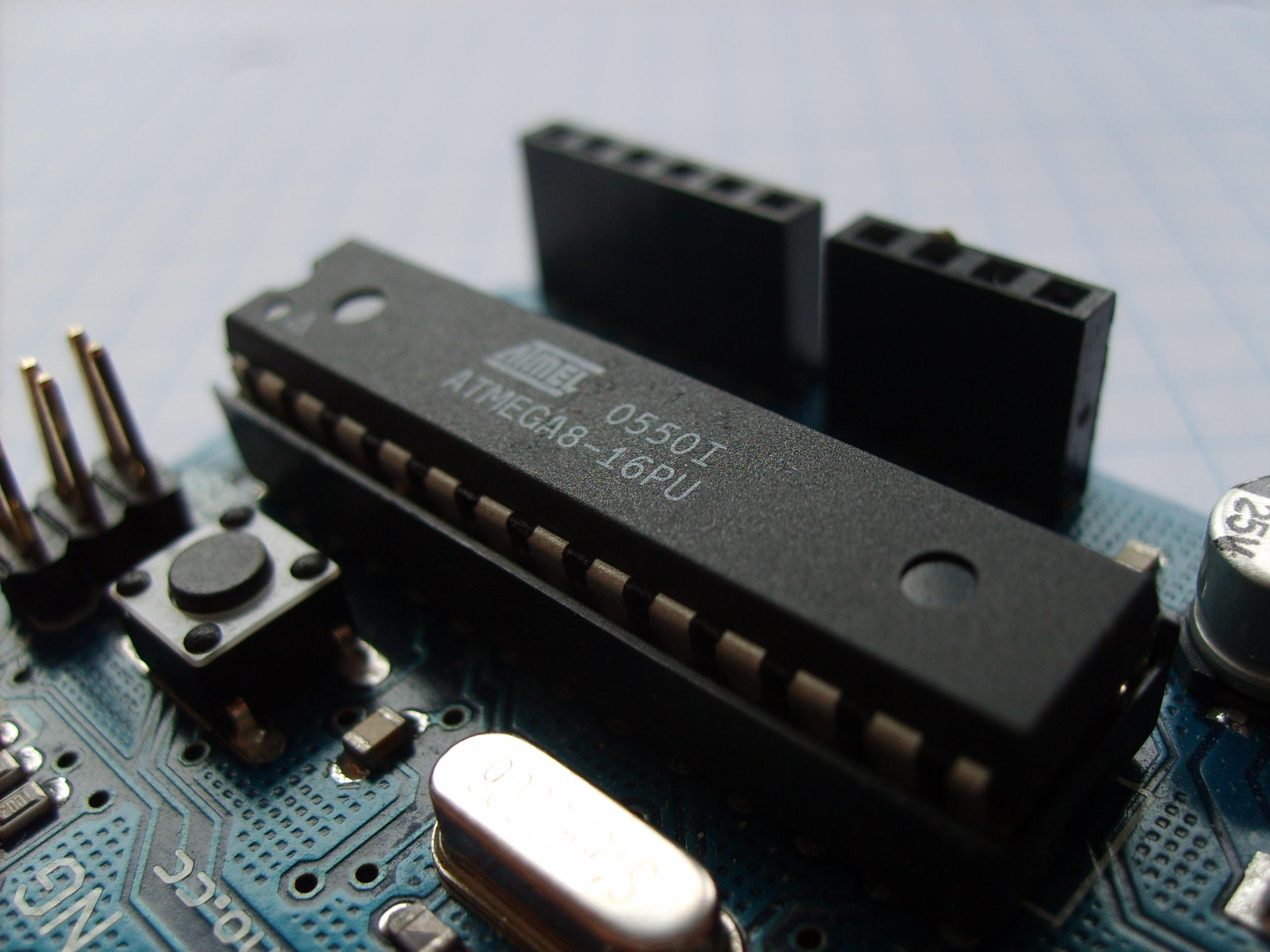 An Atmel AVR ATMega8-16PU microcontroller on the Arduino NG board from arduino.cc.